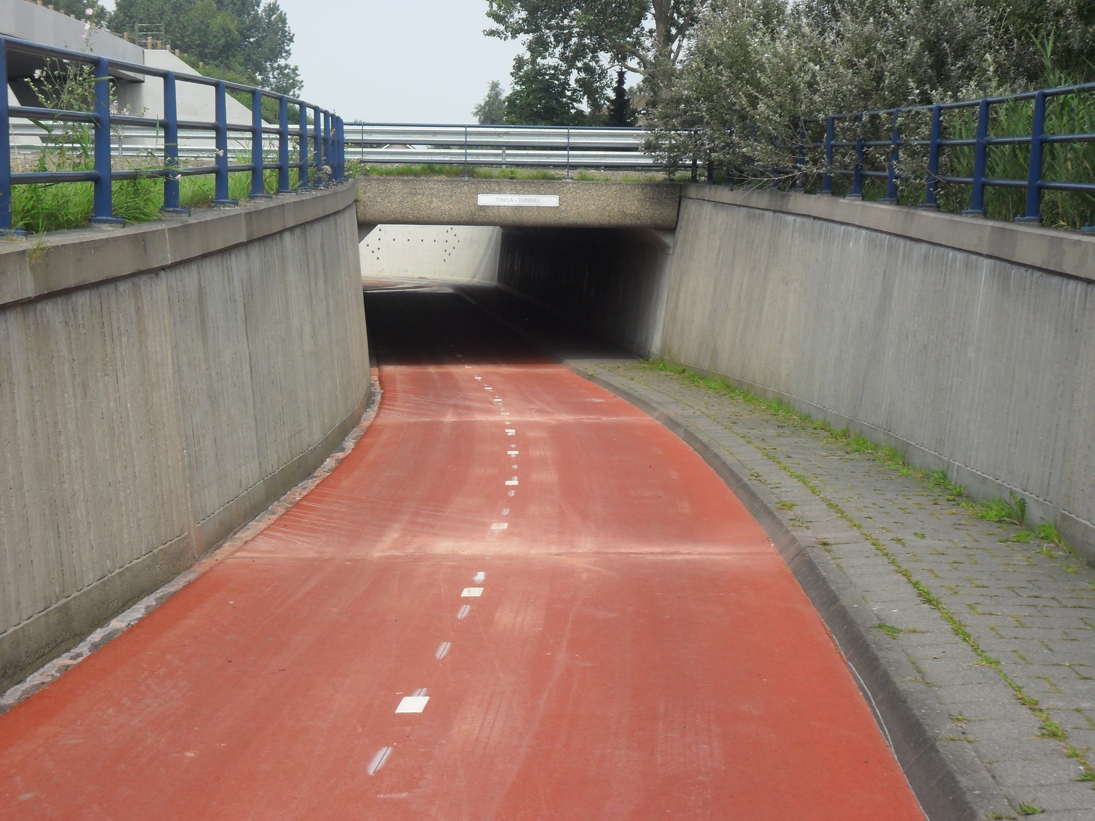 Tinga Tunnel in Sneek